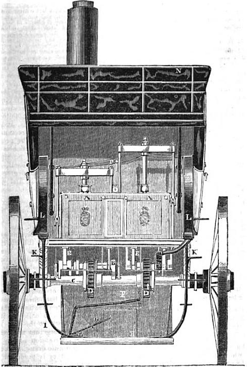 A steam carriage invented by John Scott Russell in 1834, with two cylinders developing 12 horsepower each. Six were constructed, well-sprung and fitted out to high standard, which ran between Glasgow and Paisley at hourly intervals. The road trustees objected that it wore out the road and placed various obstructions of logs and stones in the road, which actually caused more discomfort for horse-drawn carriages. But eventually one of the carriages was overturned and the boiler blew up causing the death of several passages. Two of the coaches were sent to London where they ran for a short time between London and Greenwich.